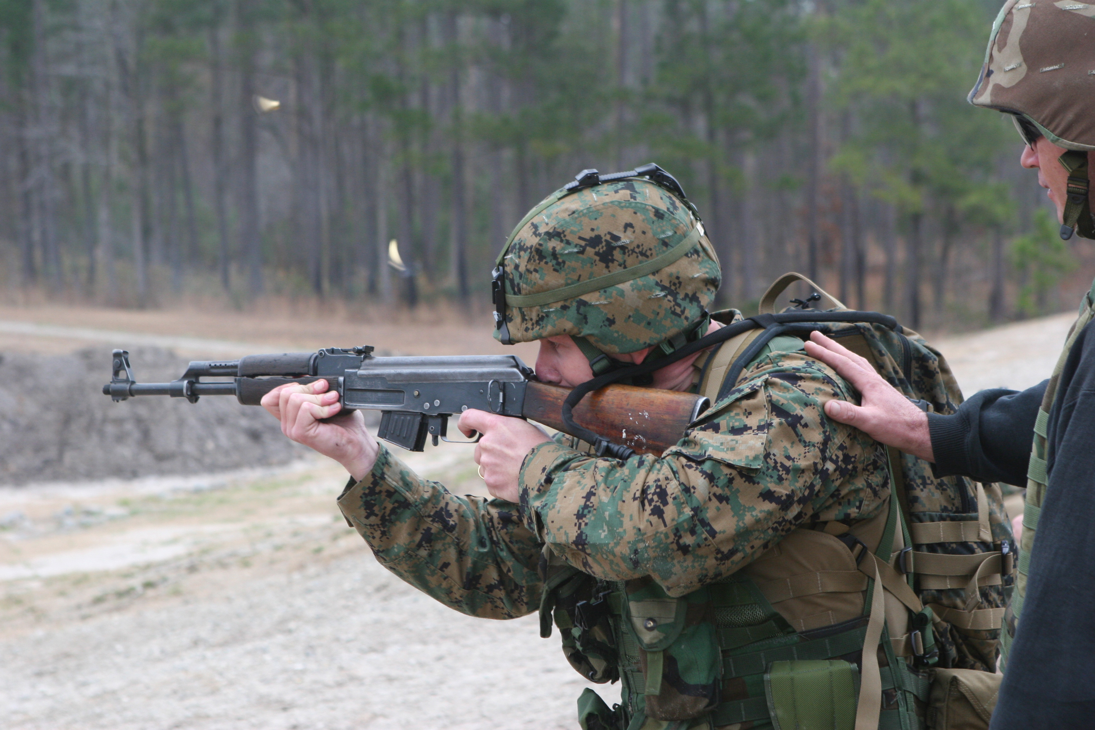 (no longer active, look in the source field) Summary Maj. Kevin M. Corcoran, who will be augmenting 2nd Marine Division operations, as assistant plans officer, fires the AK-47 assault rifle Jan. 7, as part of training held for Reserve Marines deploying to Iraq. Photo by: Corporal Lana D. Waters Photo ID: 200511110118 Submitting Unit: II Marine Expeditionary Force Photo Date:01/07/2005